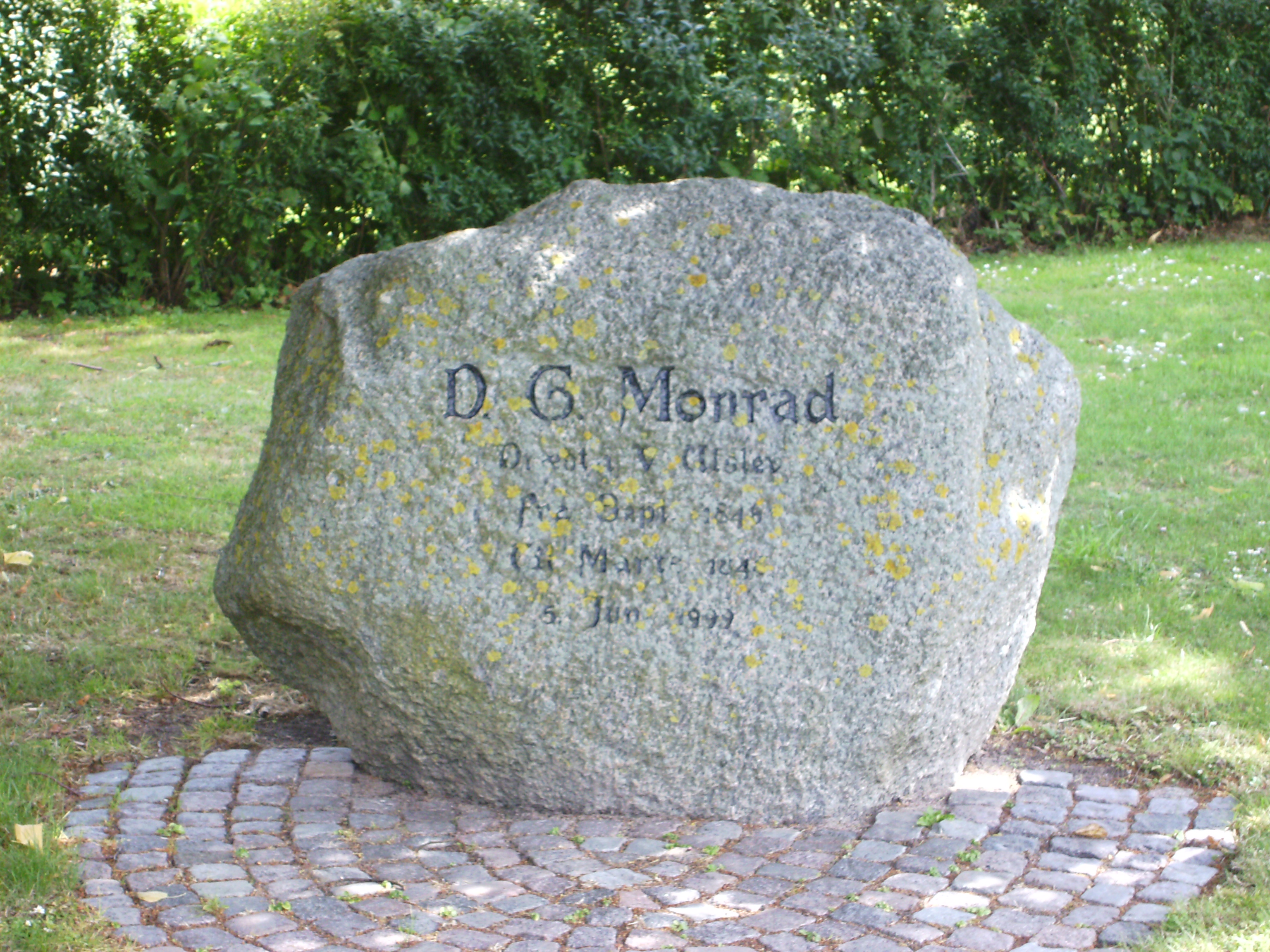 Memorial af D.G. Monrad, one of the main authors of the Danish Constitution, 1849